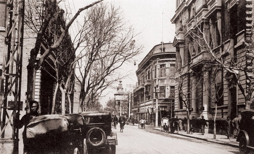 French Concession in Tianjin